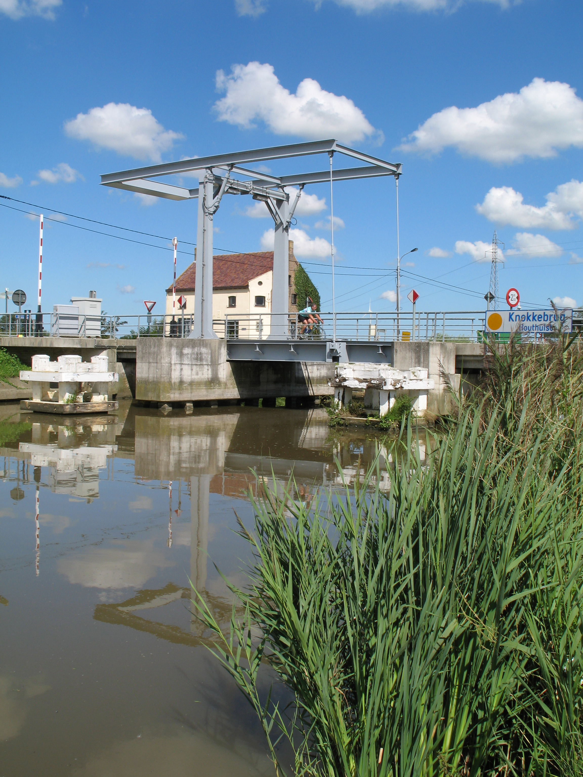 Knokke bridge on the IJzer river at Houthulst (West Flanders, Belgium)